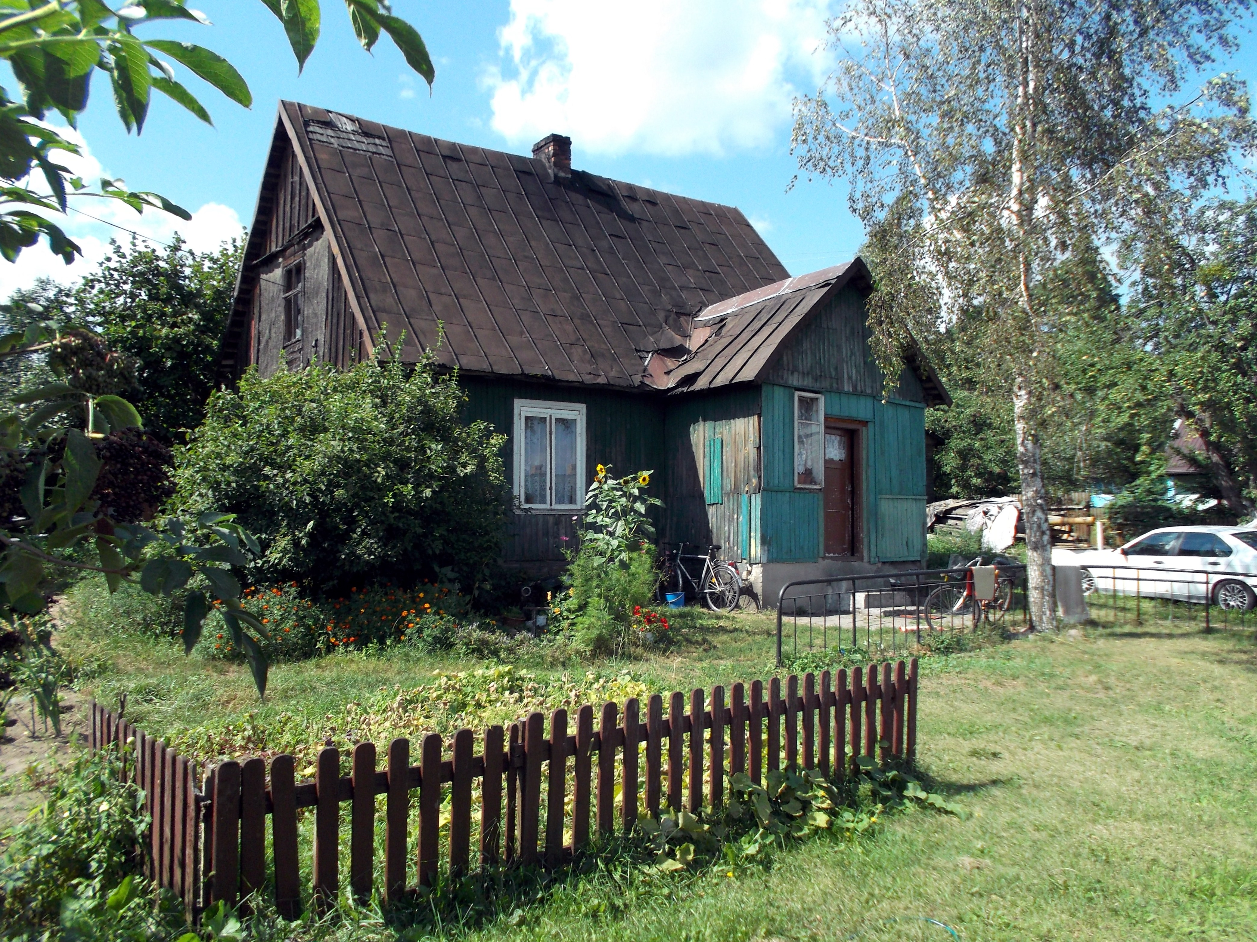 Wooden house, Nadrzeczna Str. in Augustów, Poland.